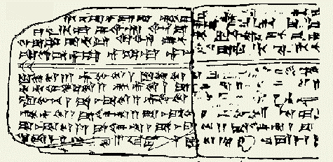 Hurrian hymn. (Transcription: below double-scribed line, Lines 1-6: Line 1--qáb-li-te 3 ir (cuneiform)-bu-te (cuneiform) 1 qáb-li-te 3 ša-aḫ-ri 1 i (cuneiform)-šar-te 10 uš-ta-ma (cuneiform)-a (cuneiform)-ri Line 2--ti-TI (cuneiform)-mi-šar-te 2 zi-ir-te 1 ša-[a]ḫ-ri (cuneiform) 2 ša-aš (cuneiform)-ša-te 2 ir-bu-te 2 (Transcription: below double-scribed line, Lines 1-6: Line 1--qáb-li-te 3 ir-bu-te 1 qáb-li-te 3 ša-aḫ-ri 1 i-šar-te 10 uš-ta-ma-a-ri Line 2--ti-ti-mi-šar(LUGAL)-te 2 zi-ir-te 1 ša-[a]ḫ-ri 2 ša-aš-ša-te 2 ir-bu-te 2